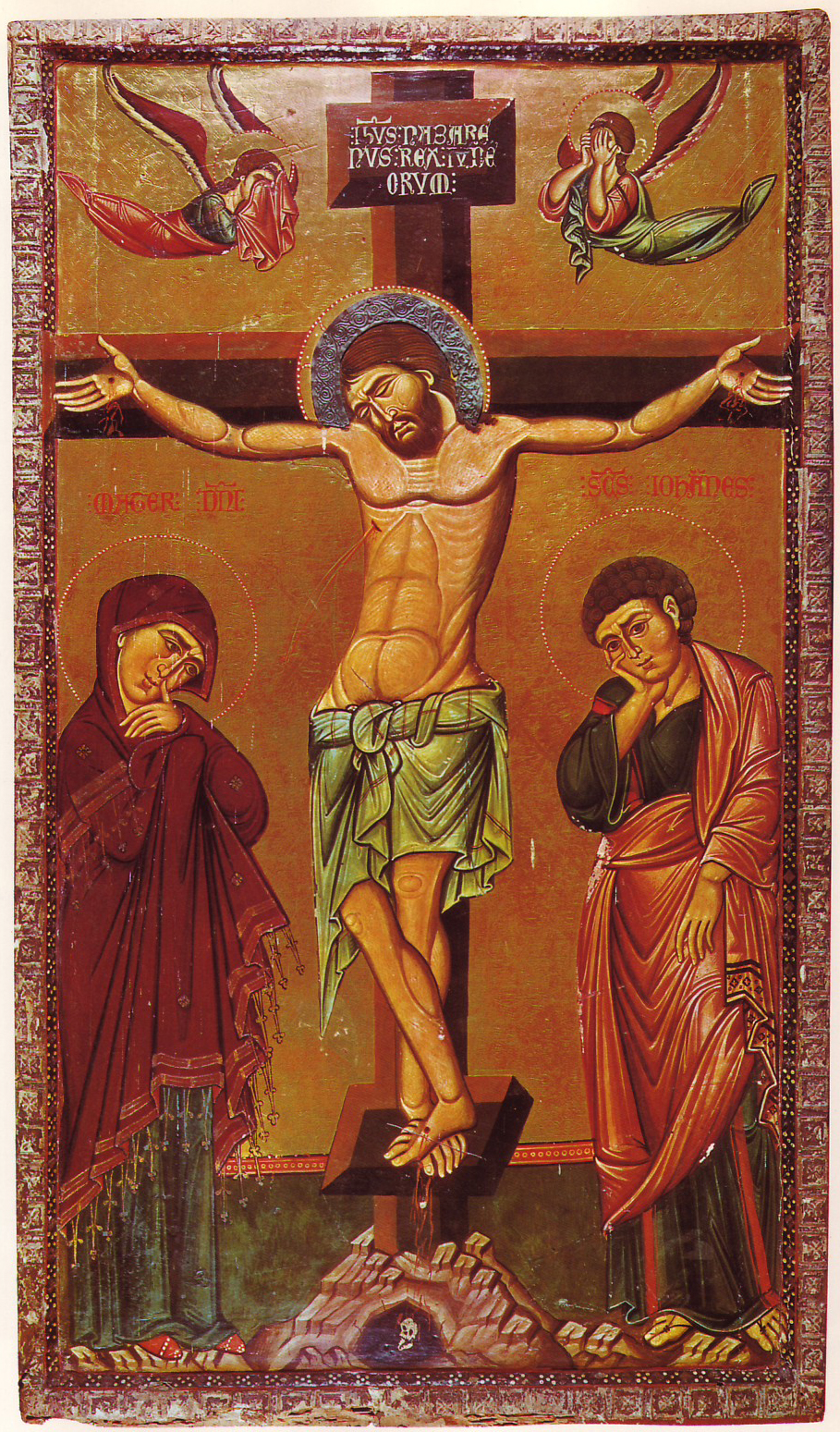 Crucifixion group: a byzantine icon in a rather occidental style, possibly by a venetian artist. third quarter of the 13th century. 120.5 x 67 cm